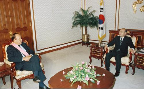 Hans-Dietrich Genscher, Bundesminister des Auswartigen, führt ein Gesprach mit Staatspresident Chun Doo Hwan